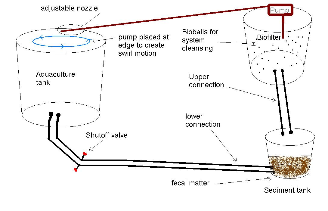 An example of an aquaculture design I created in the paint application